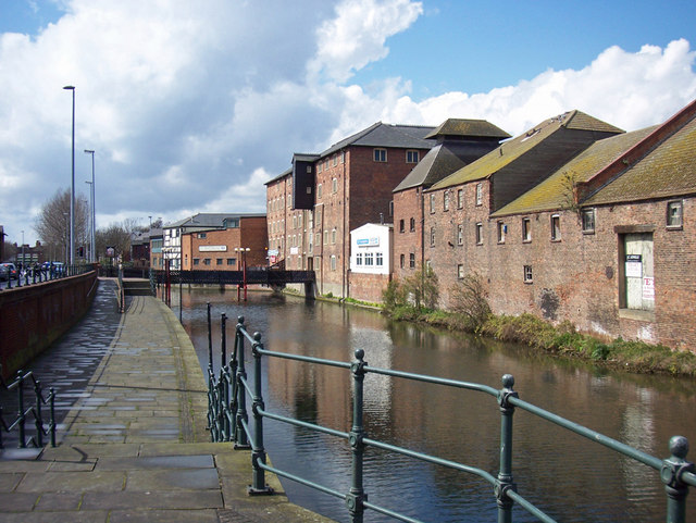 River Freshney The water quality appeared to be very good.